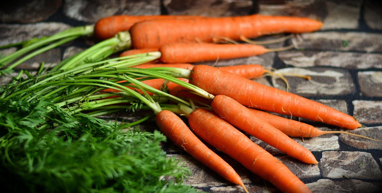 Carrots